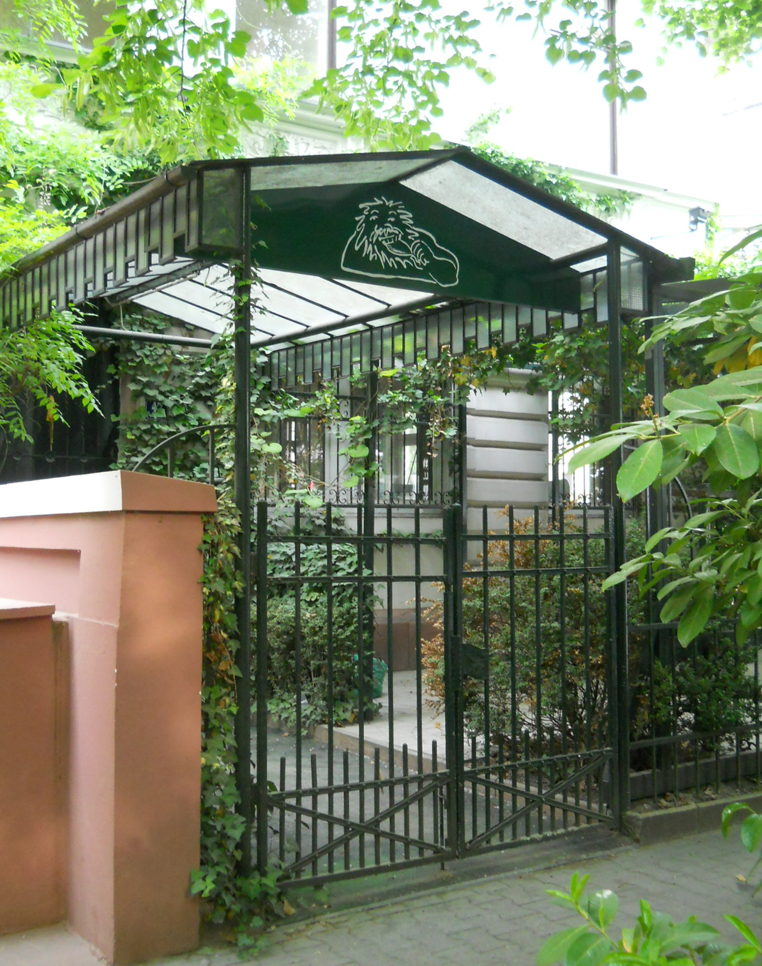 Restaurant Gargantua, Frankfurt am Main, Liebigstraße (doorway)